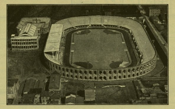 The Stadio Littoriale